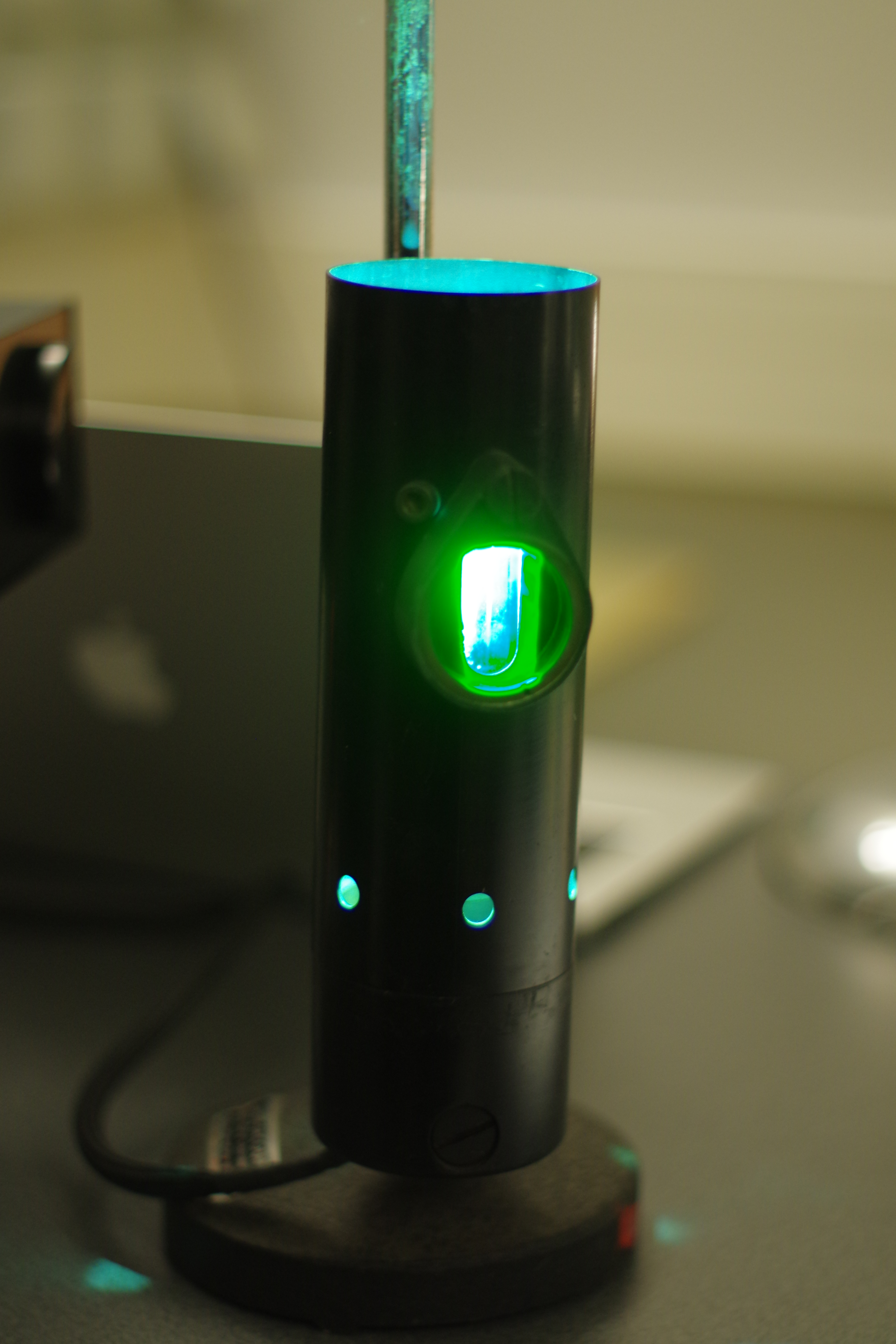 Exemple of spectral lamp used at SupOptique